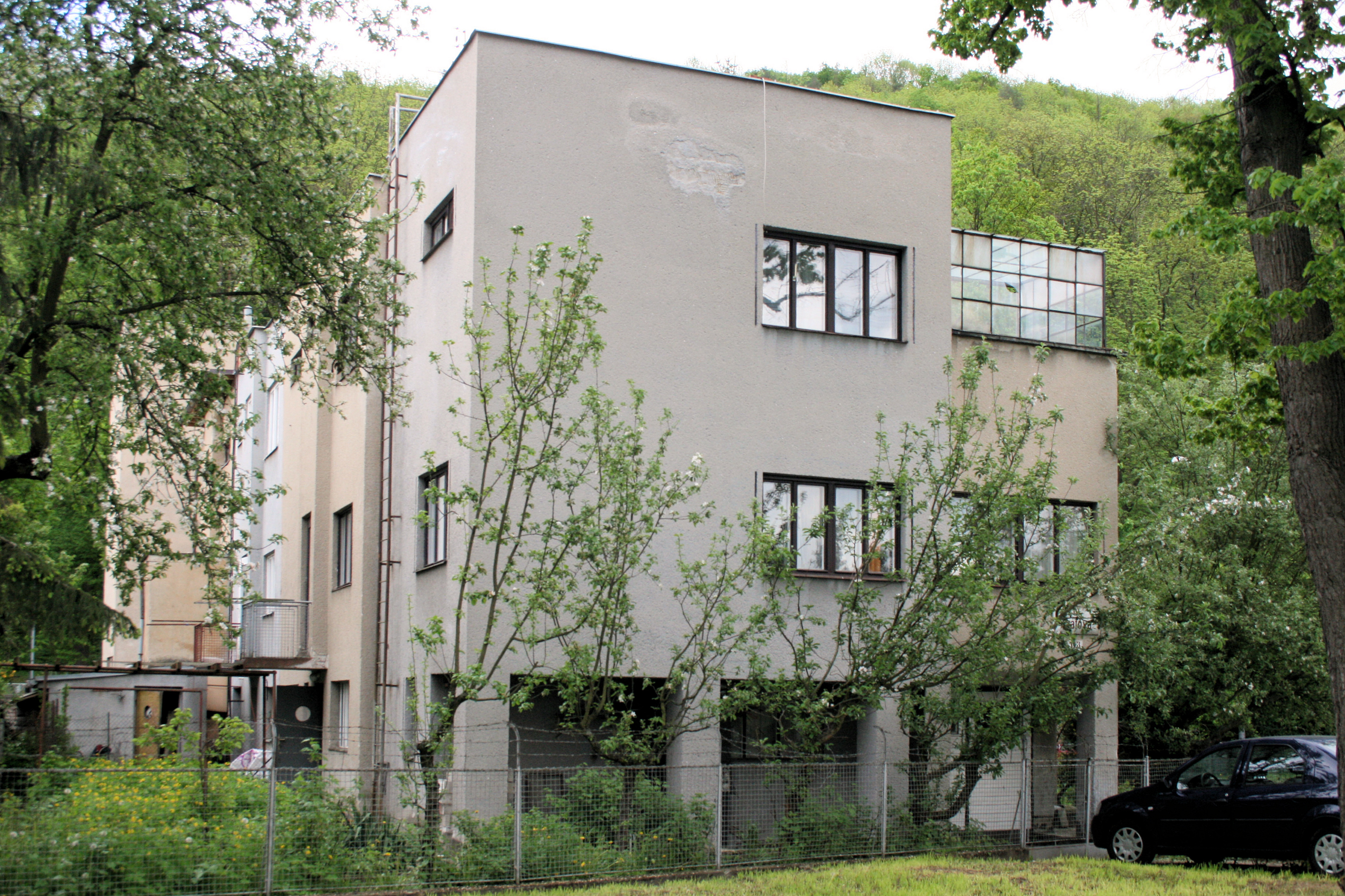 "Nový dům" (New House) settlement - 16 functionalist houses built in 1928 on occasion of an annual exhibition of contemporary culture, Brno, Czech Republic. Česky: Kolonie Nový dům - obytný komplex 16 funkcionalistických rodinných domků zbudovaných v roce 1928 v rámci jubilejní výstavy soudobé kultury. Dům od architekta Bohuslava Fuchse na rohu ulic Petřvaldská a Bráfova, Brno-Žabovřesky.